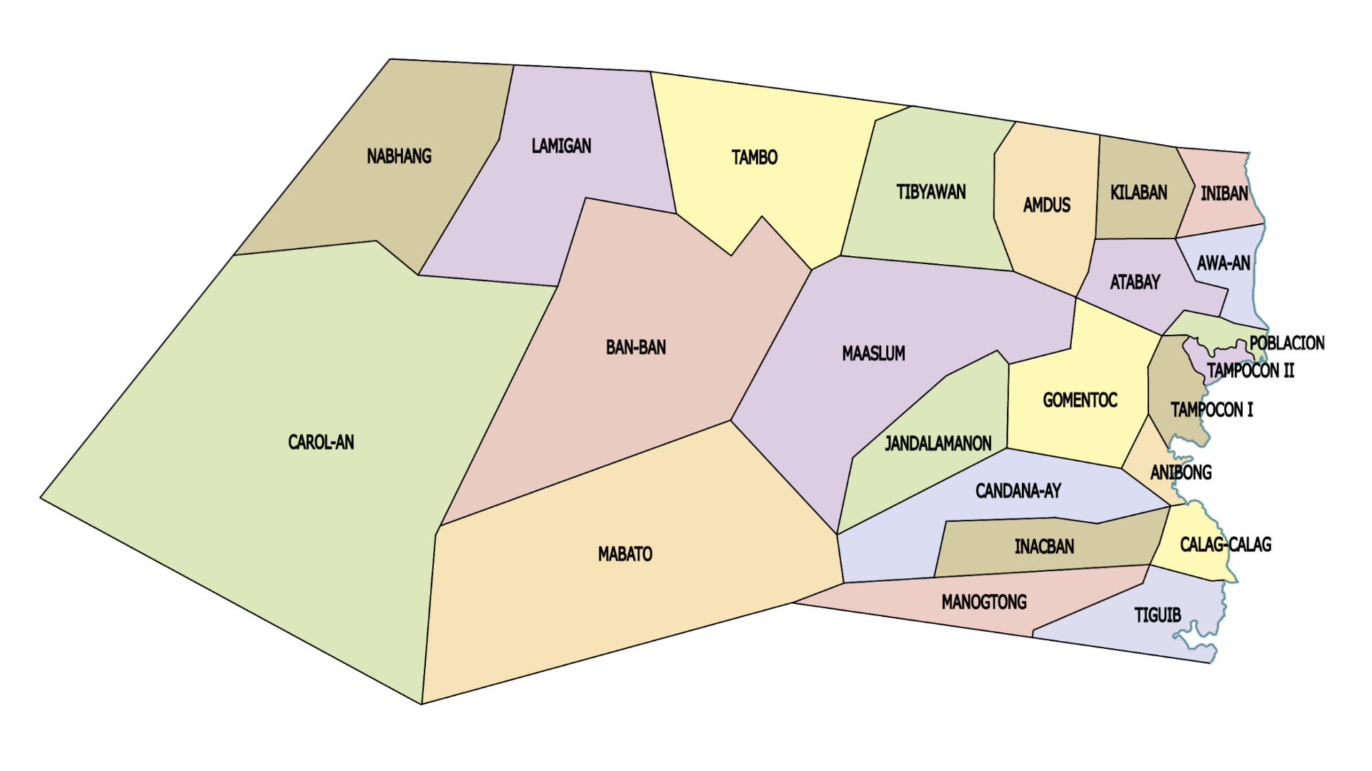 Original Map of Ayungon, Negros Oriental, Philippines Cebuano: Mapa nga Ayungon Negros Oriental, Pilipinas Tagalog: Ito ang mapa ng Ayungon, Negros Oriental